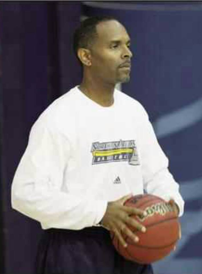 Coach Che Jones during a practice at Northern Arizona University where he was a member of their coaching staff during the 2012-13 season.